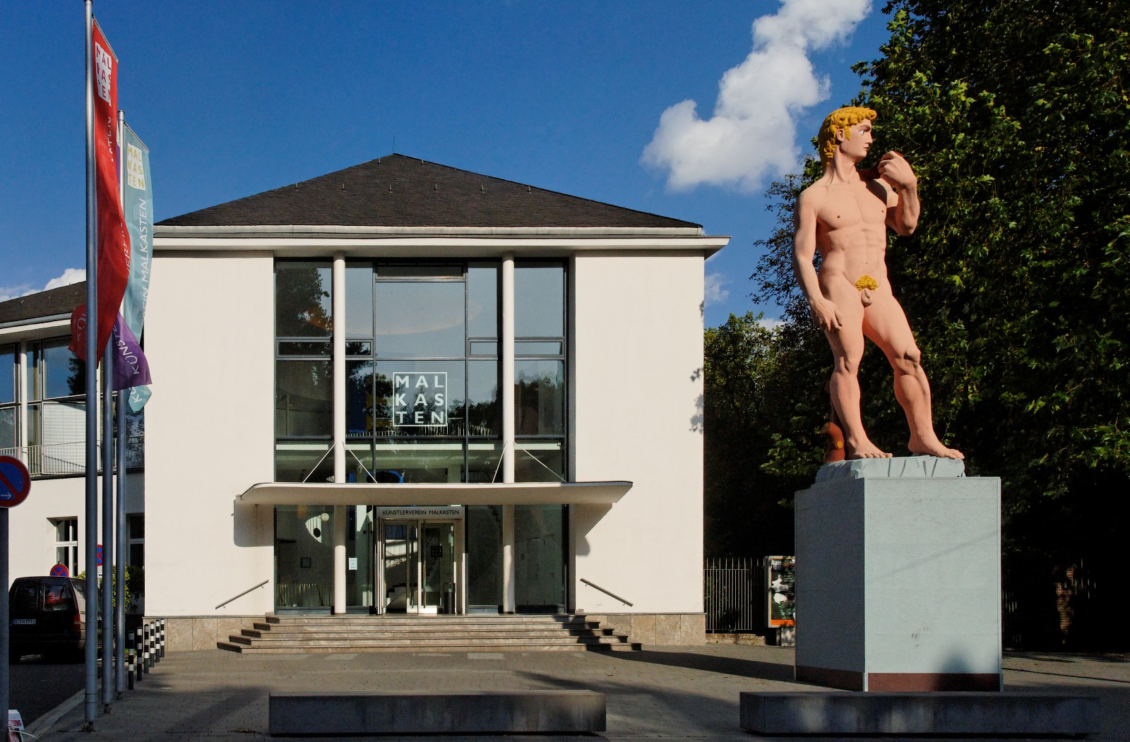 House of Malkasten in Düsseldorf-Pempelfort, Germany